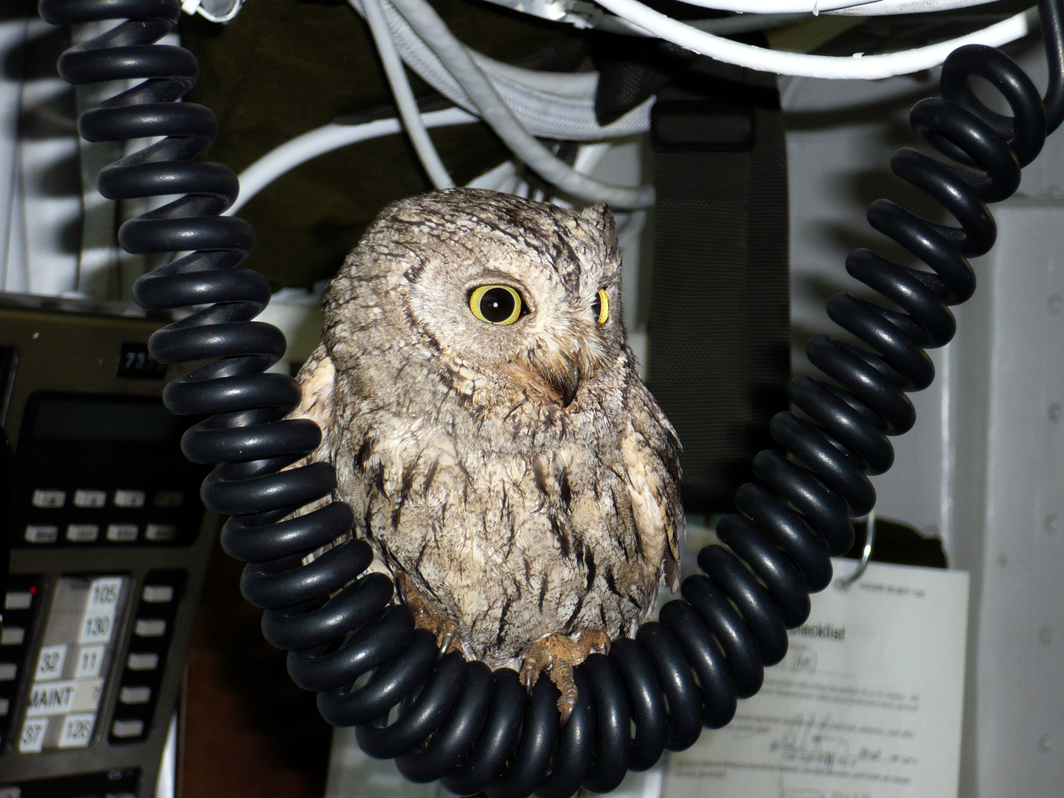 080317-N-4632D-001 PERSIAN GULF (March 17, 2008) "Fod", a Eurasian Scops Owl Otus scops that was found on the flight deck of the Nimitz-class nuclear-powered aircraft carrier USS Harry S. Truman (CVN 75), rests on the cable of a sound powered telephone in the flight deck control center of the carrier. The owl was discovered in the left-main wheel well of an F/A 18 Hornet during a pre-flight inspection of the aircraft. Truman and embarked Carrier Air Wing (CVW) 3 are deployed supporting Operations Iraqi Freedom, Enduring Freedom and maritime security operations.